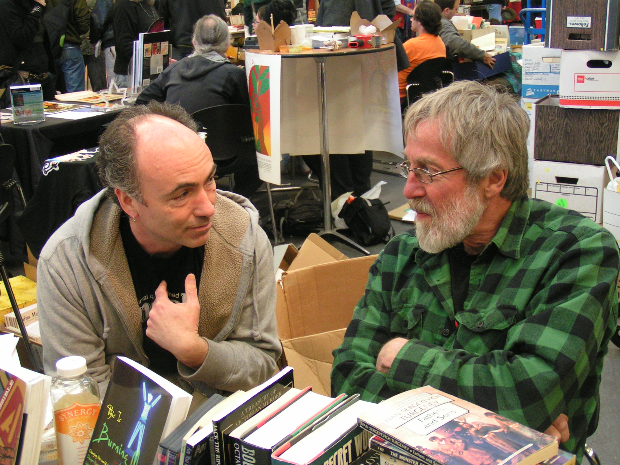 Lawrence Jarach and John Zerzan in discussion at the Anarchy: A Journal of Desire Armed booth, during the 2010 Bay Area Anarchist Book Fair.